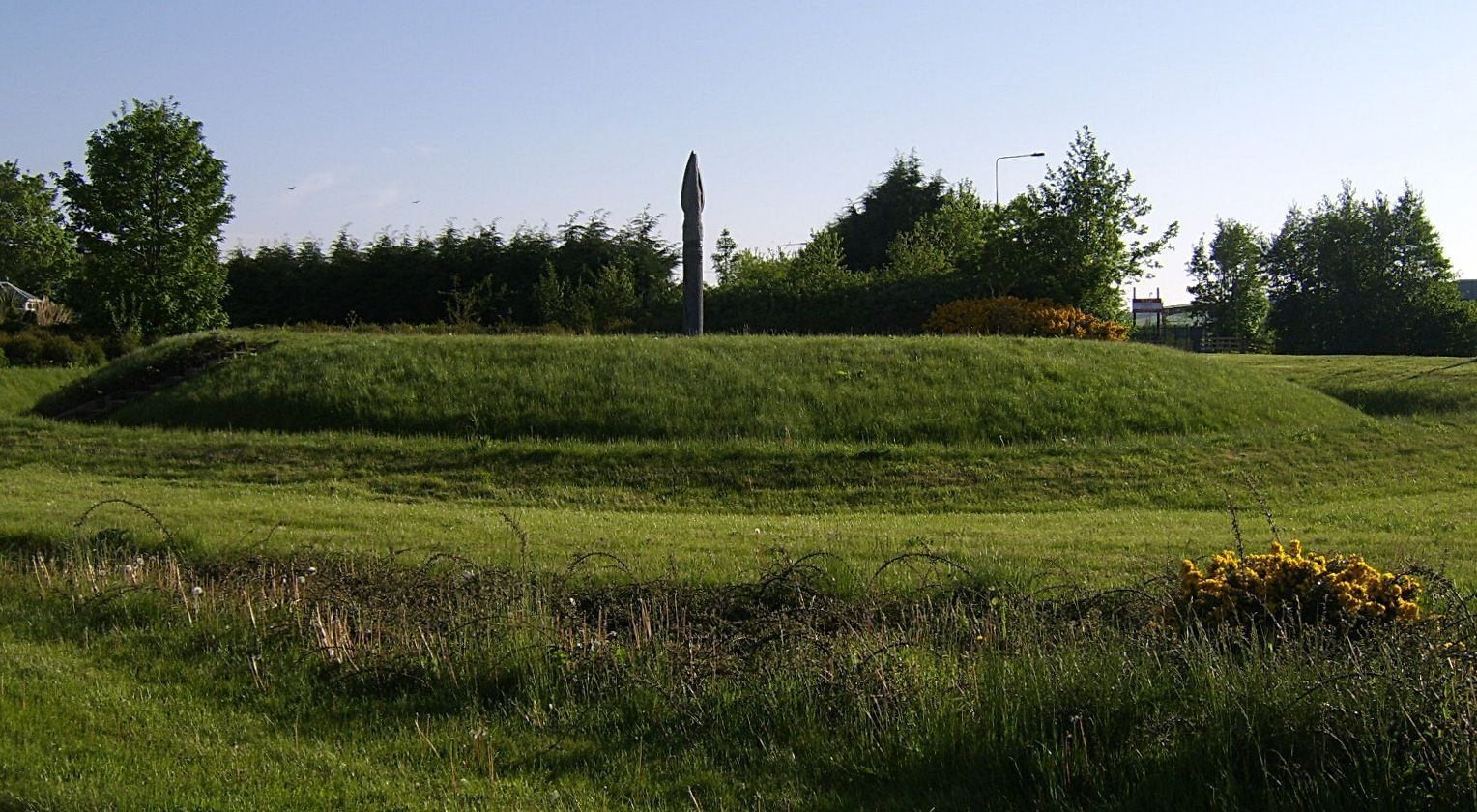 Image title: Dun Ailinne monument field Image from Public domain images website